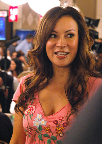 Jennifer Tilly in 2006 World Series of Poker - Rio Las Vegas.